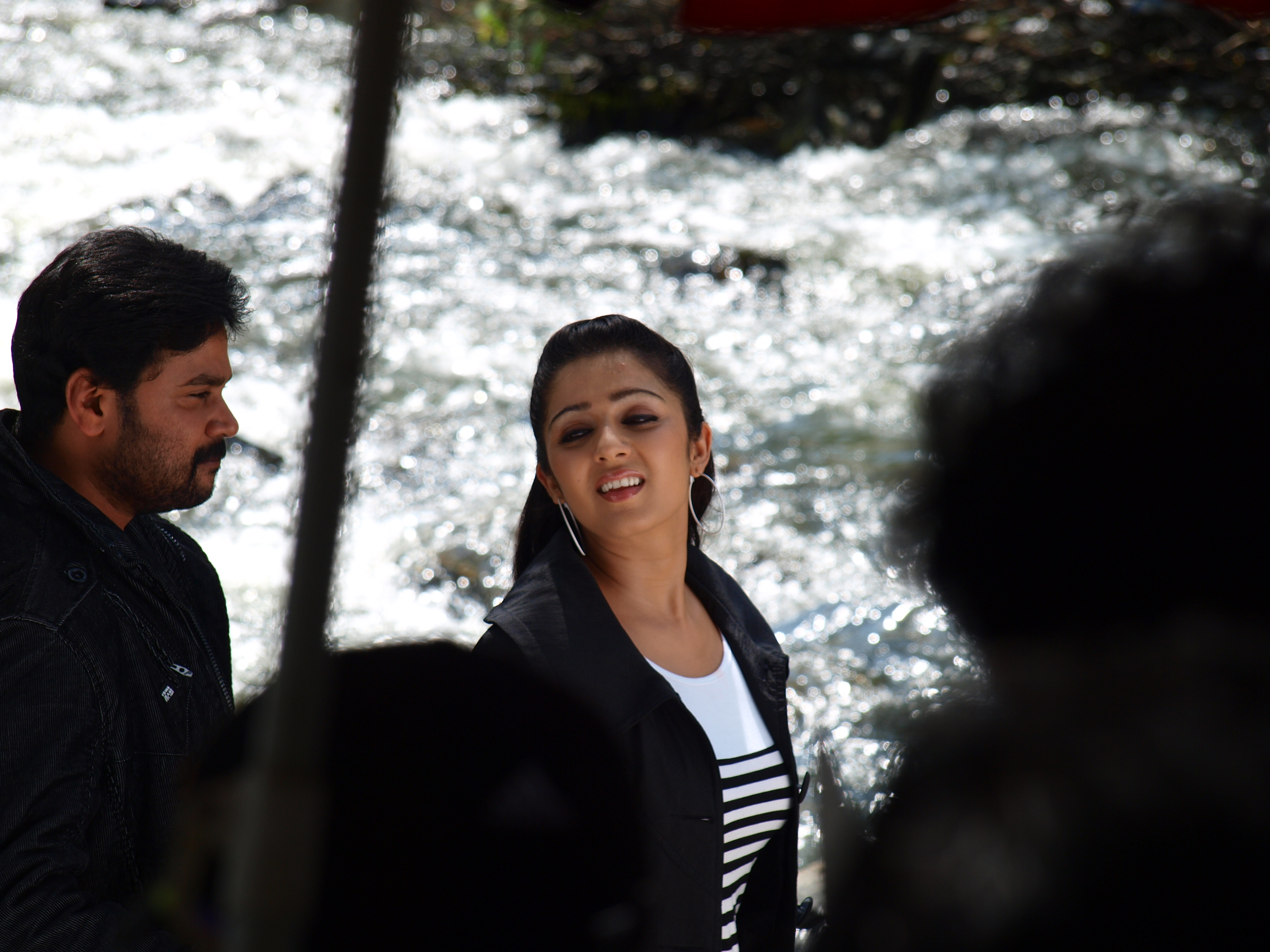 Aagathan shooting at Sivanasamudra falls